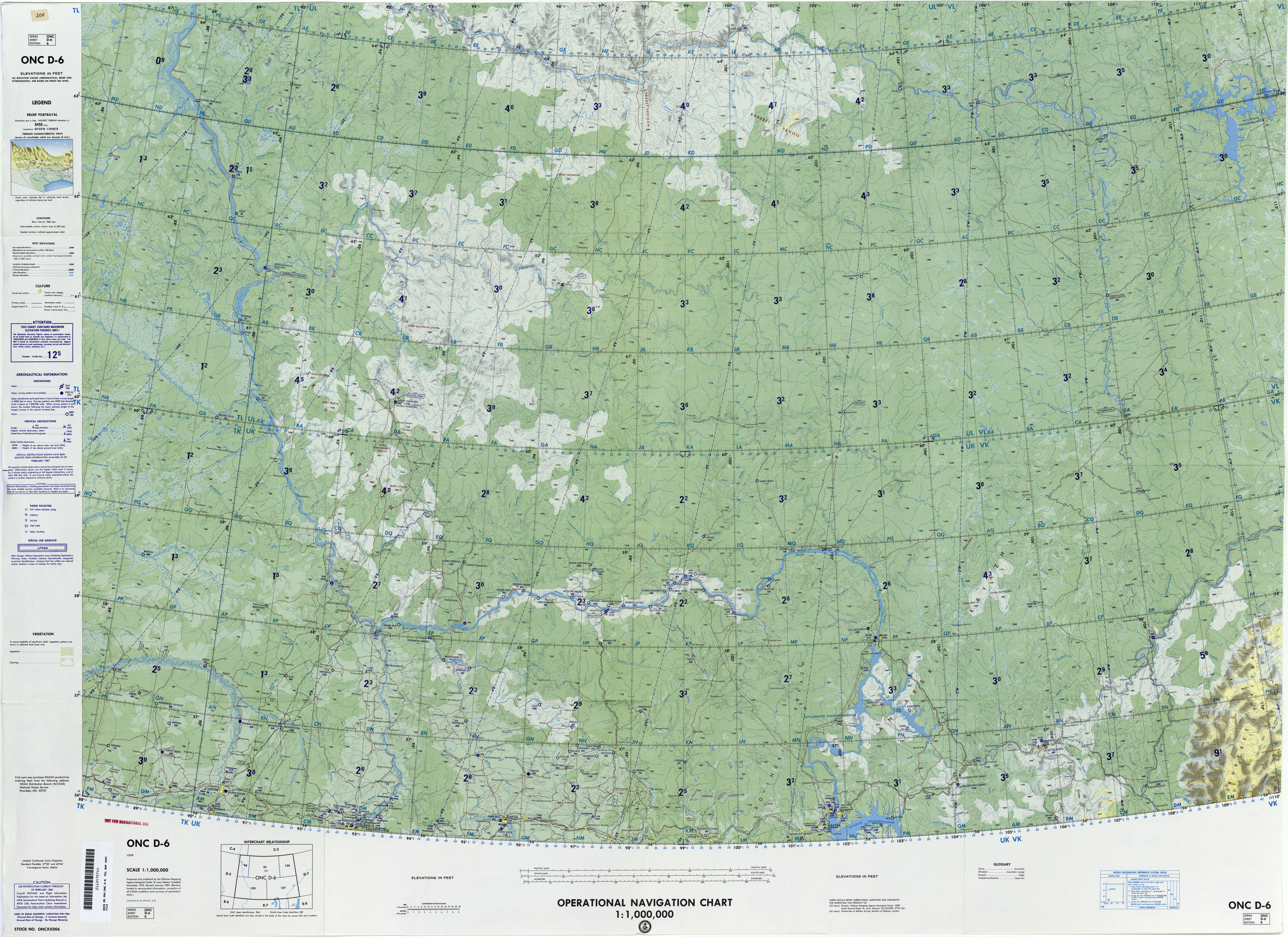 1:1,000,000 scale Operational Navigation Chart, Sheet D-6, 6th edition. Covers the U.S.S.R. Lambert Conformal Conic Projection.